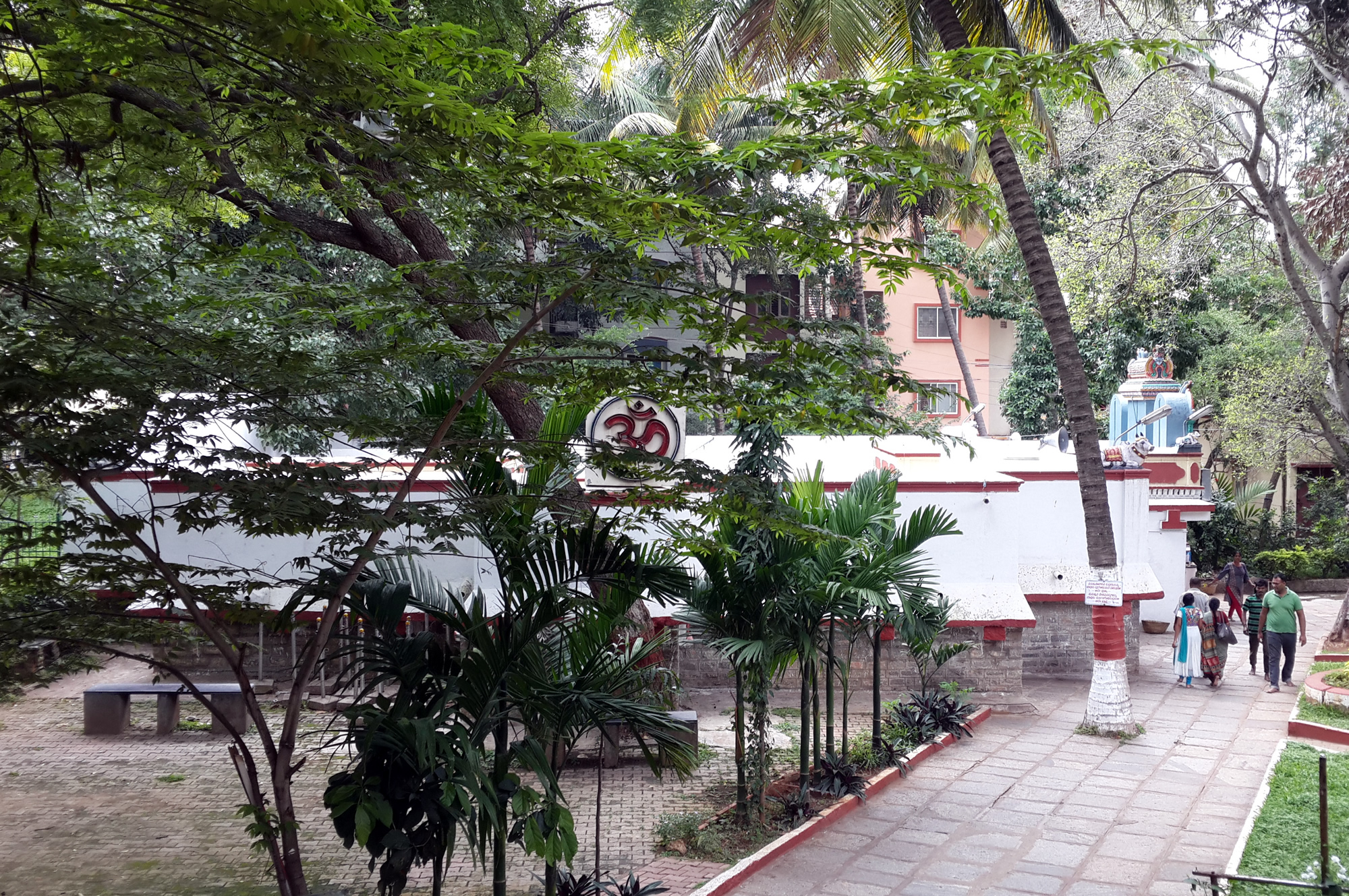 Nandi Tirtha Temple Malleswaram Bangalore